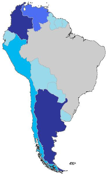 People authorized to work in Brazil by South American Countries in 2009. Organized by number of people. Key 555-399 398-237 236-101 102-002